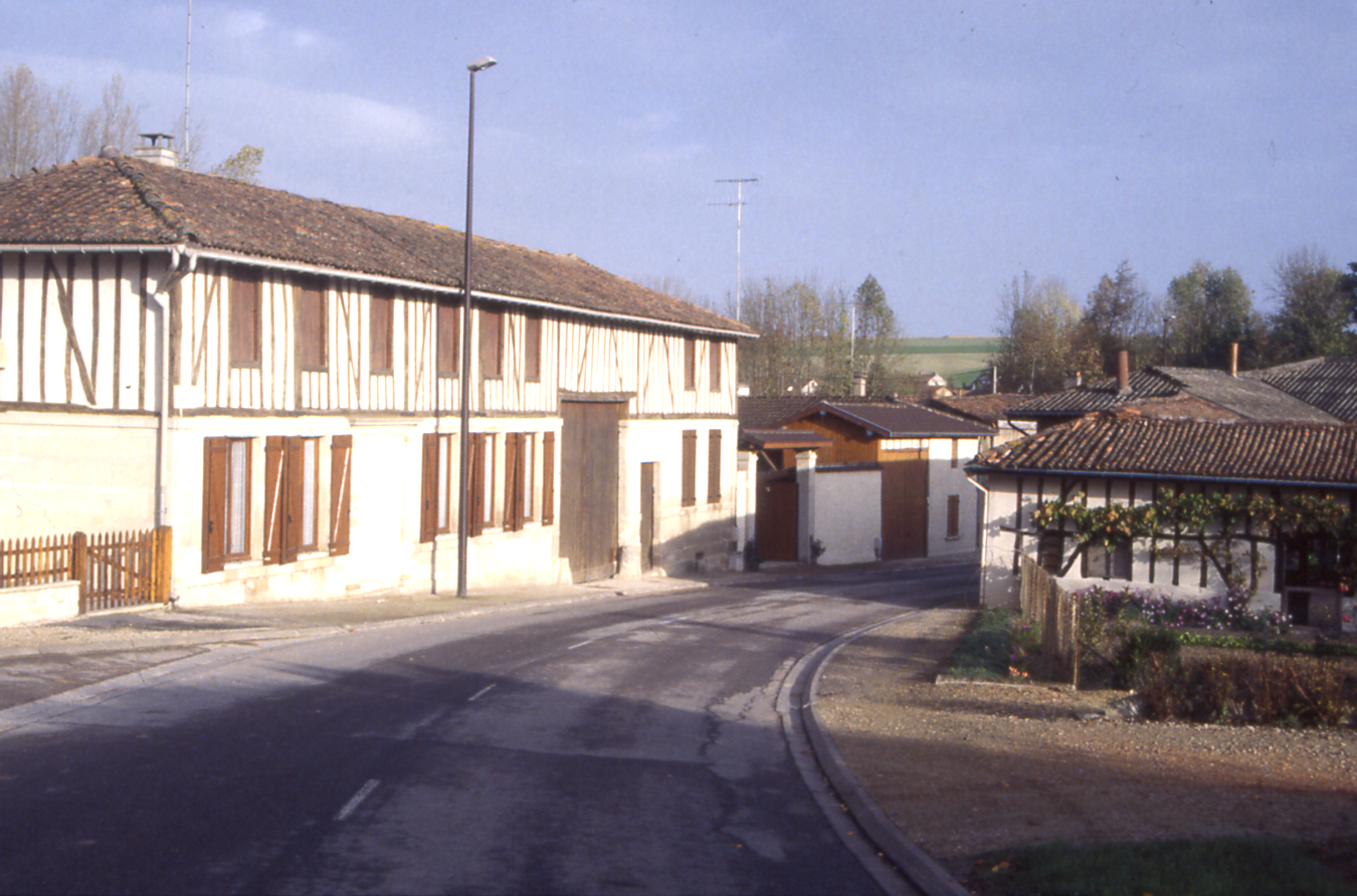 Typical farmouse of eastern Champagne region in France